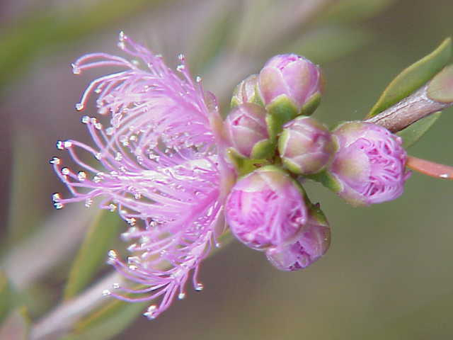 Species: Melaleuca thymifolia Family: Myrtaceae Image No. 1